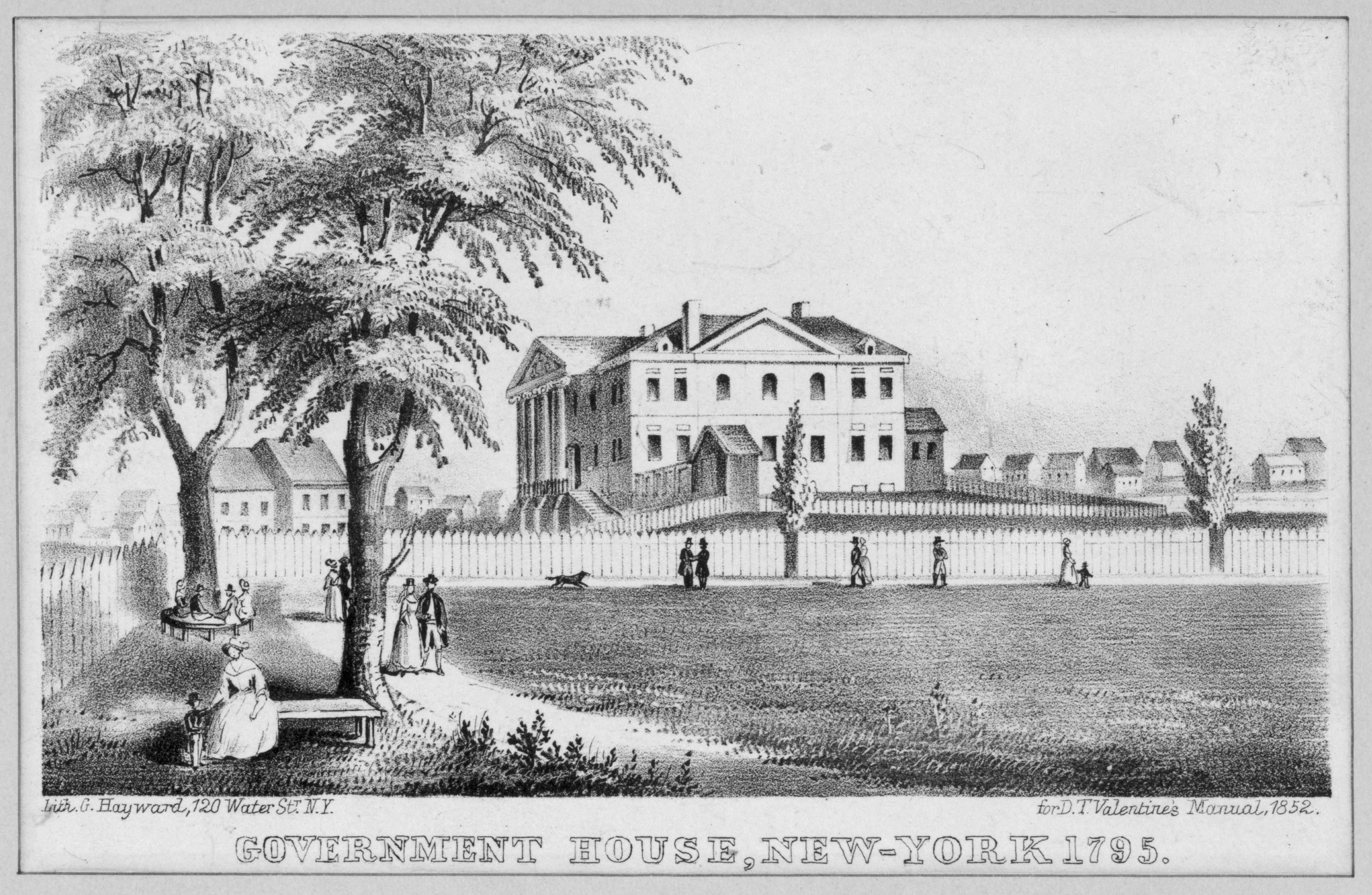 The Government House of the US, sited in NY. The illustration depicts the house as it looked in 1795